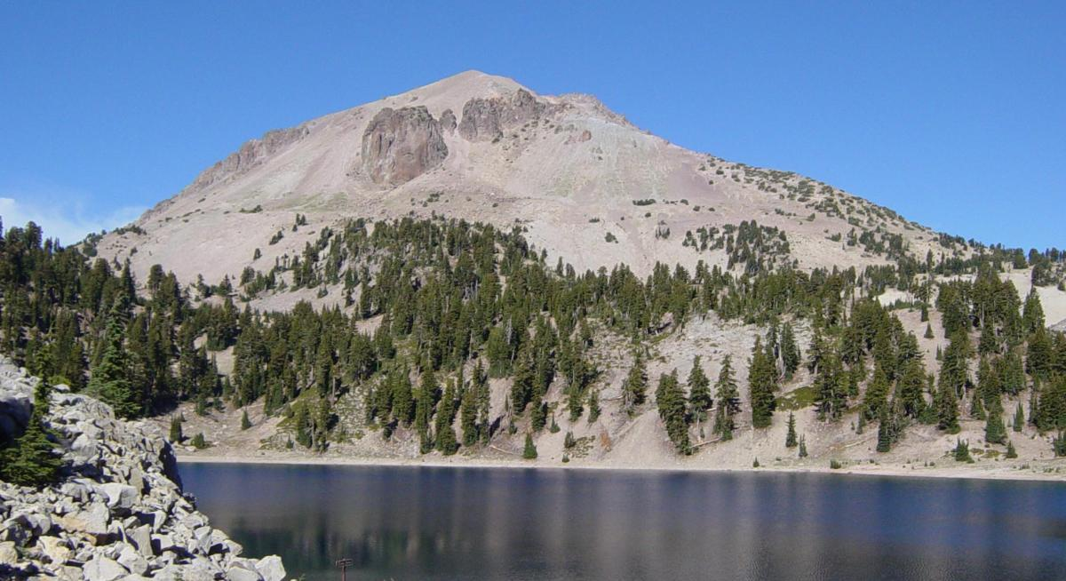 Volcan's Eye on Lassen Peak from Lake Helen, Lassen Volcanic National Park.